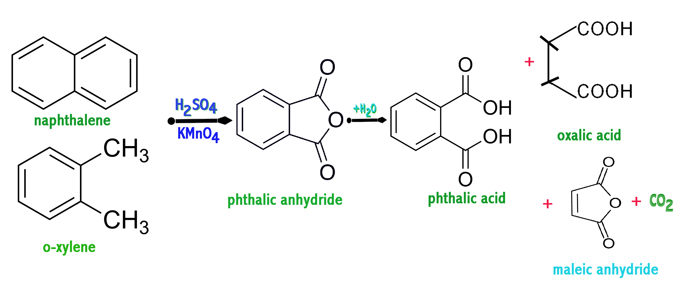 Phthalic acid Synthesis from naphthalene and o-xylene